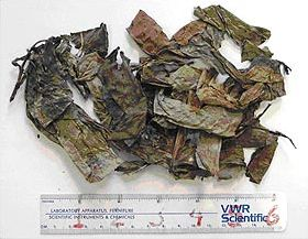 Psychotria viridis dried leaves